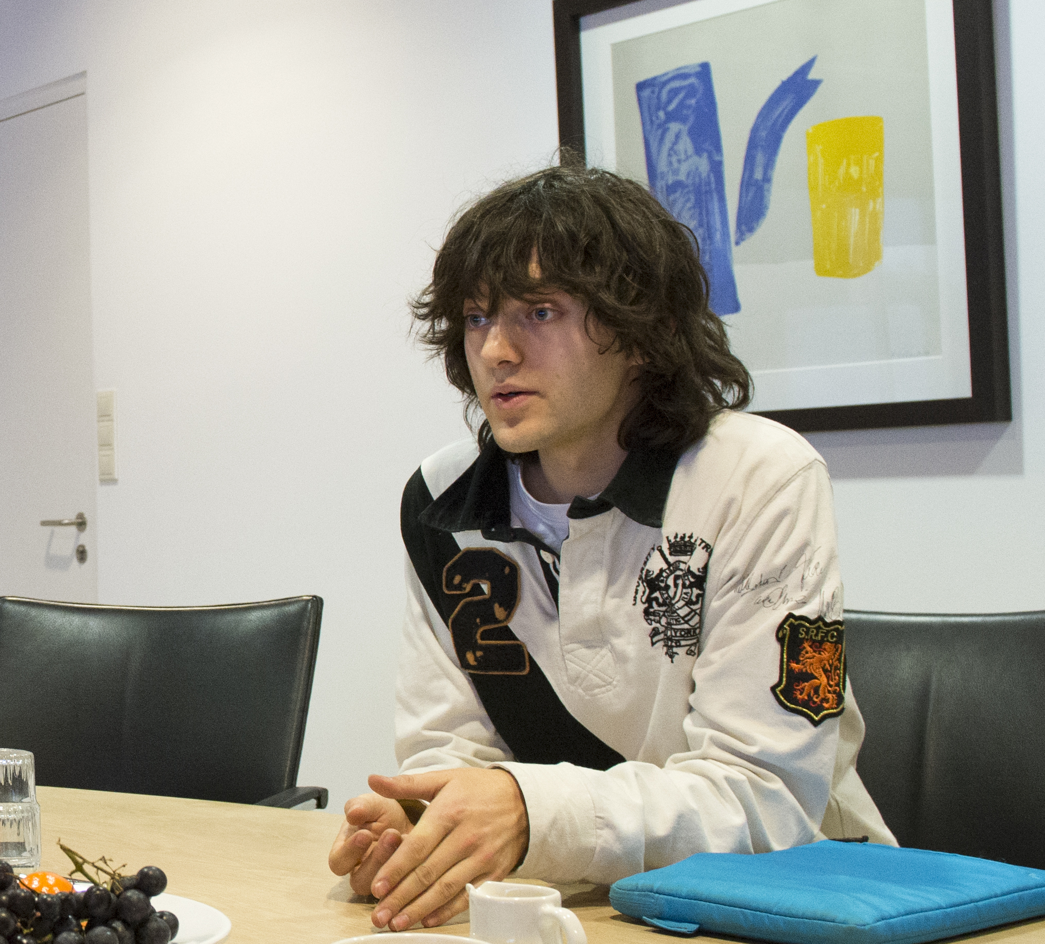 Lilianne Ploumen, Dutch minister of foreign trade and development cooperation, meets with Boyan Slat, February 23, 2015.